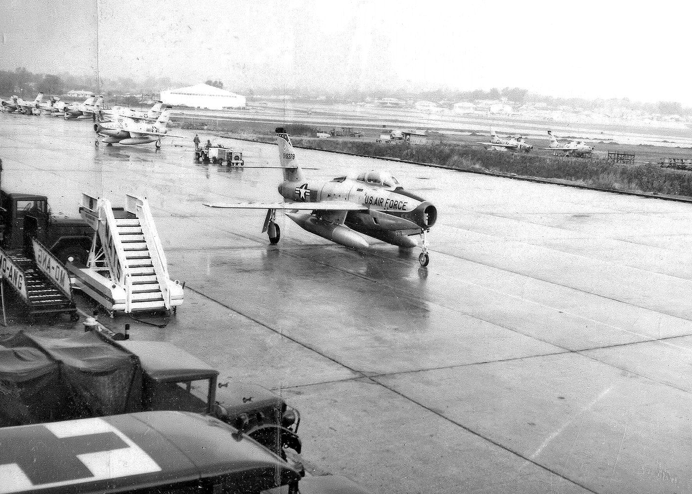 An F-84F of the 131st Fighter-Bomber Wing, Missouri Air National Guard, taxies on the ramp at Toul Rosieres Air Force Base, France, 1961. (Photo by 131st Bomb Wing)